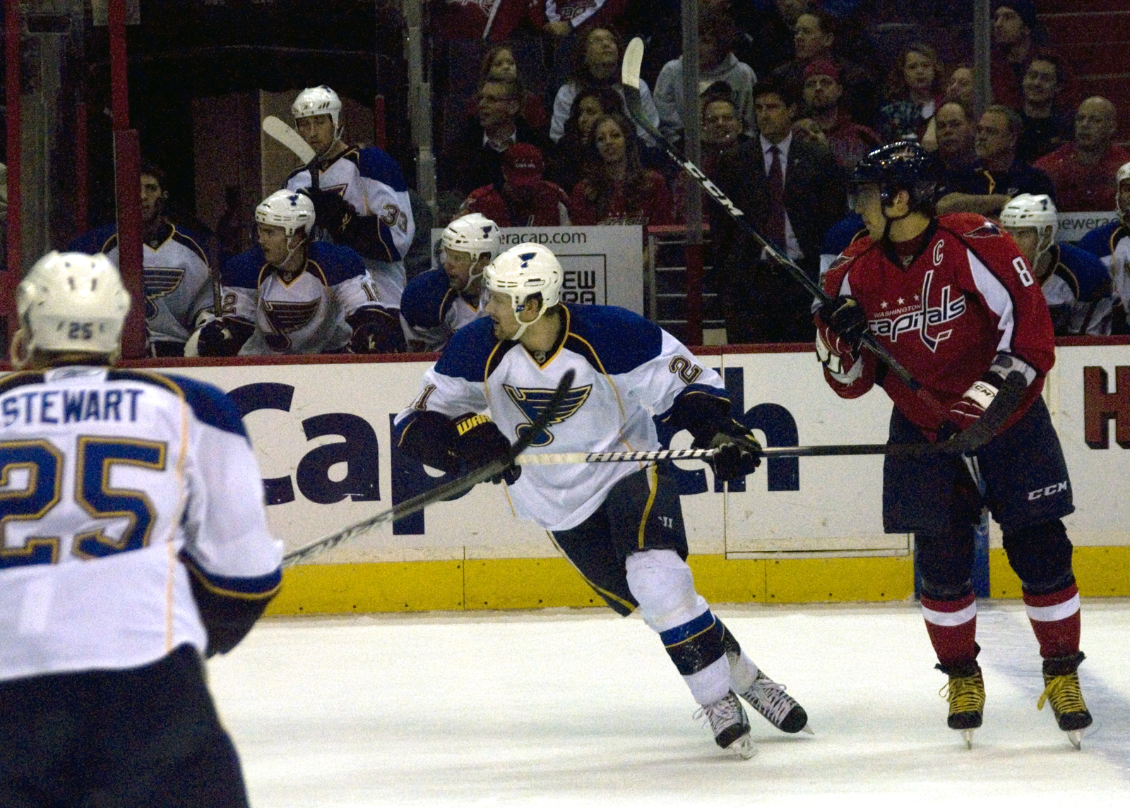 ERI_5201 Photo taken on March 3, 2011 by Sarah Connors. St. Louis Blues vs. Washington Capitals – National Hockey League (NHL) This photo also appears in sarah_connors' Flickr photostream Blues @ Caps, 3/3/11 (Set: 134) Flickr Tags: St. Louis Blues, Washington Capitals, Capitals, Caps, Blues, hockey, icehockey, NHL, Verizon Center